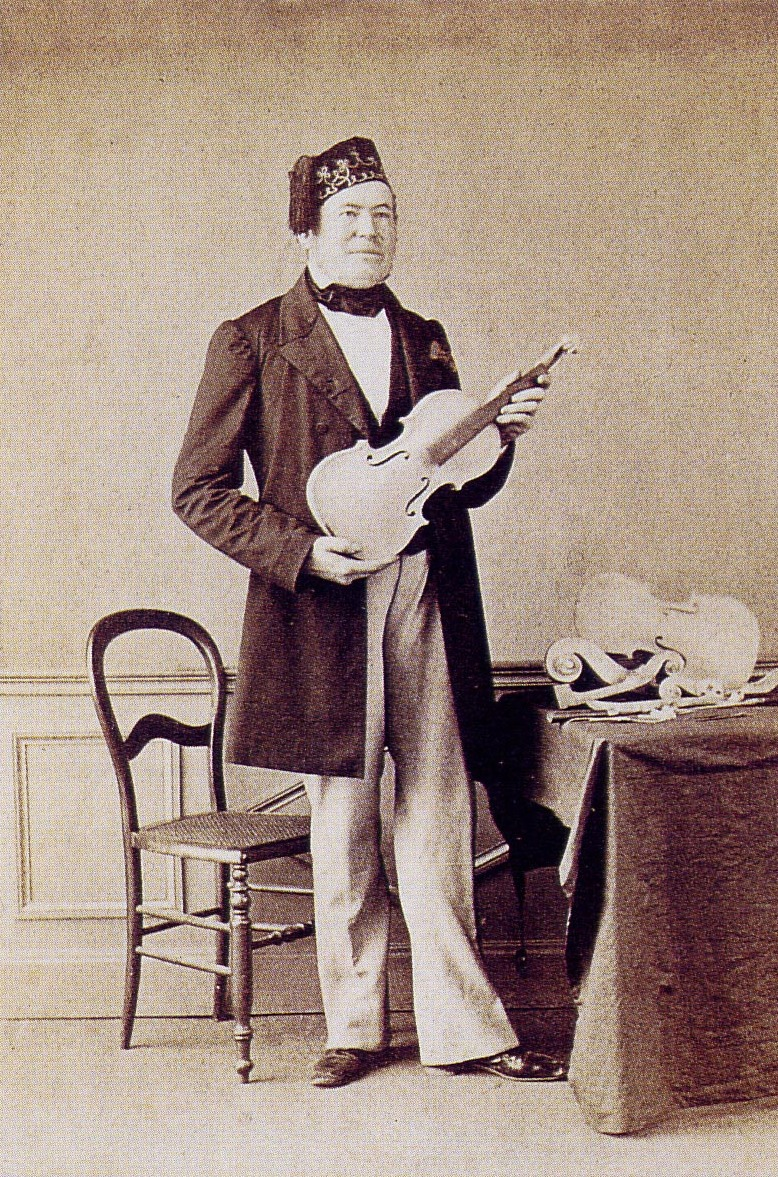 J.B. Vuillaume in his atelier